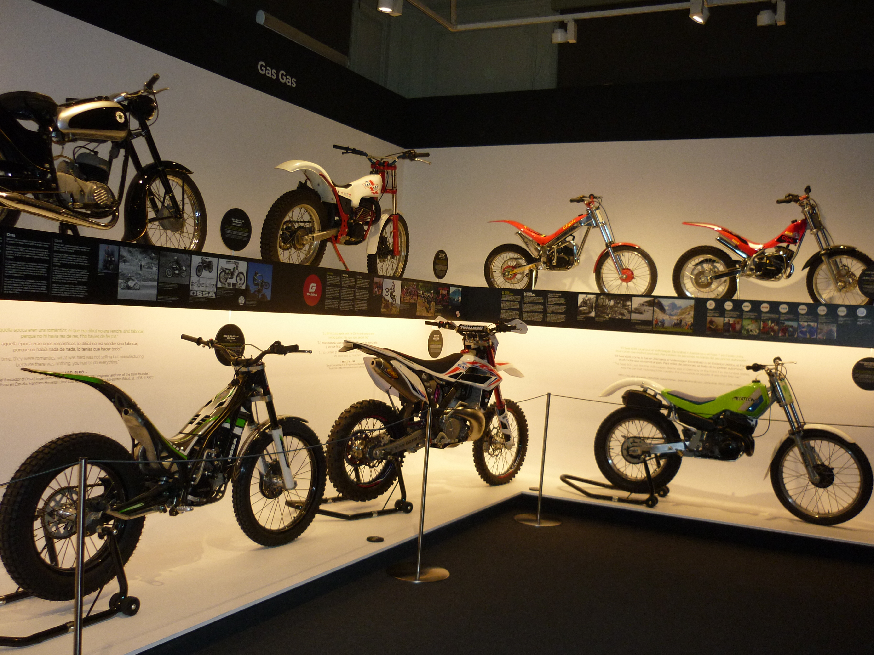 "Catalunya MOTO", hall 2